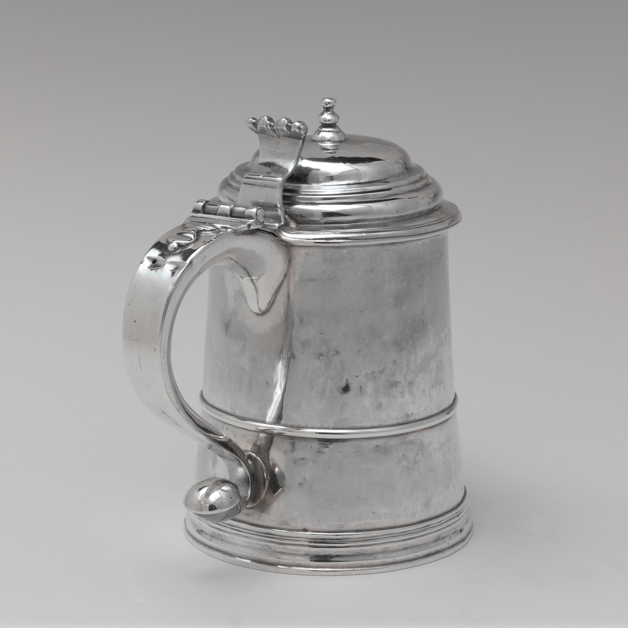 American; Tankard; Silver